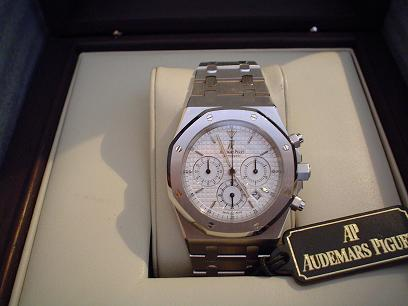 AP